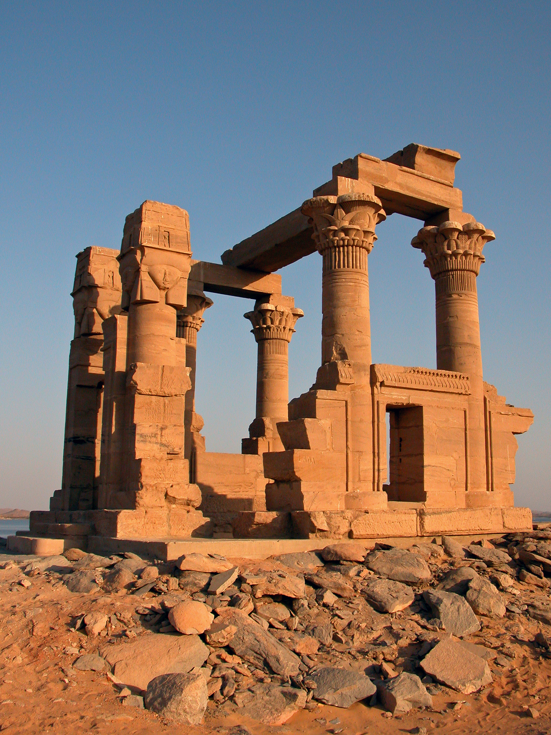 The Kiosk of Qertassi is one of the most beautiful Nubian monuments, although it is only 25 square feet in area. It is comprised of one room flanked by four columns of botanic shaped capitals. The main entrance to the chapel is ornamented with two columns that have capitals taking the shape of Hathor, the goddess of loved beauty. (Published in Wikipedia)